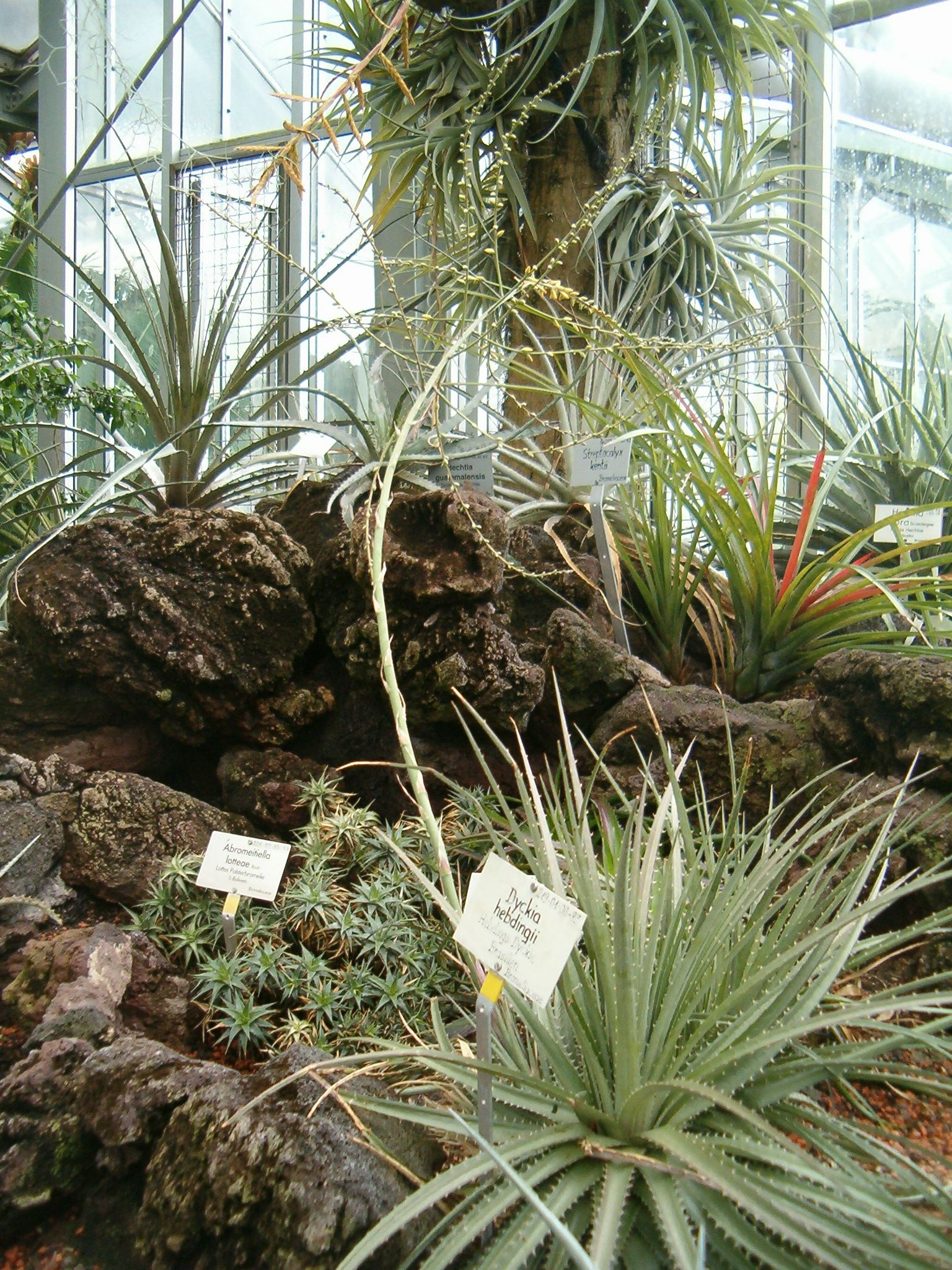 Species Dyckia hebdingii Dyckia hebdingii Habitus and Inflorescences in the Botanical Gardens Berlin Dahlem